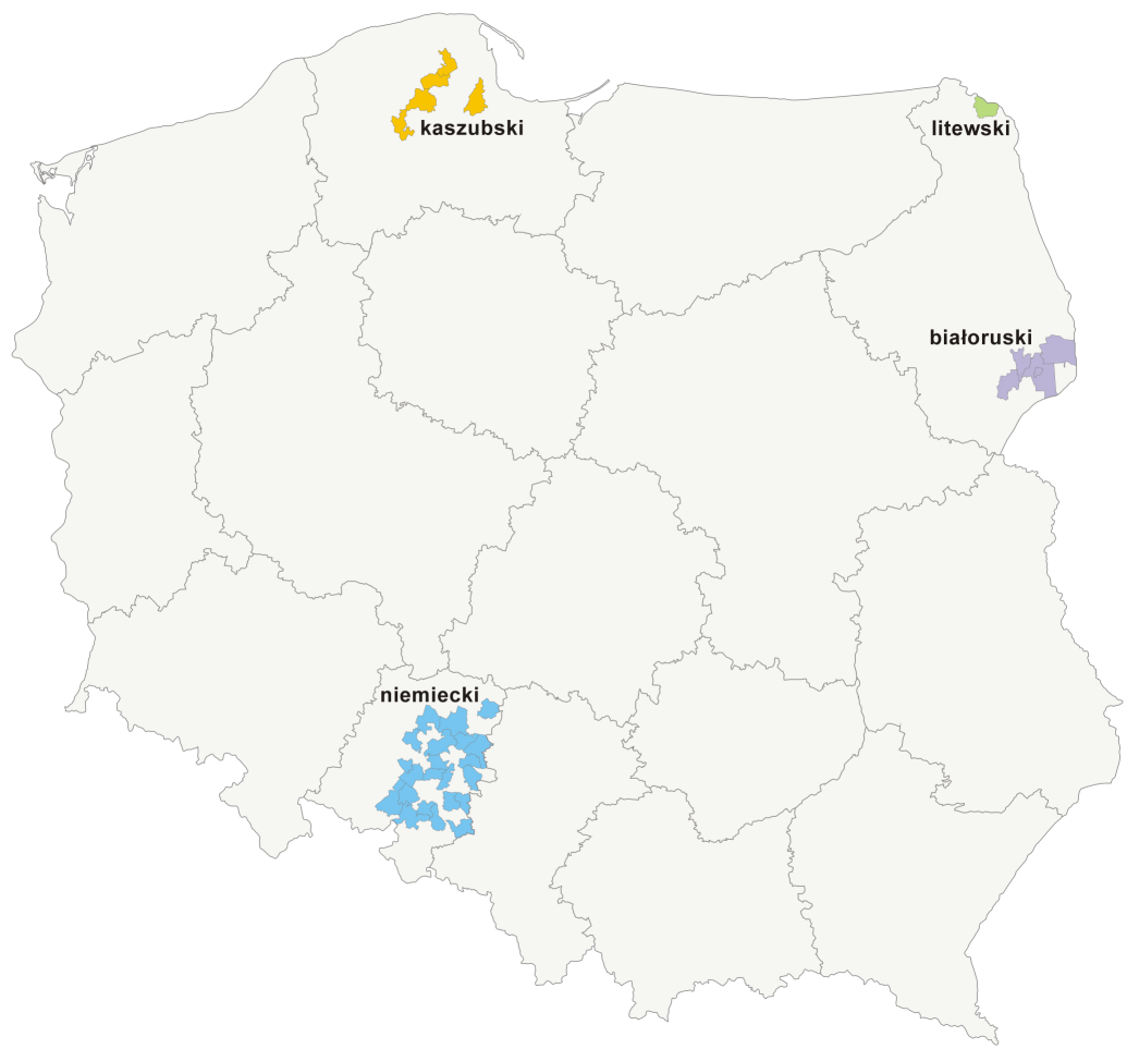 Communes in Poland in witch minority languages were introduced as auxiliary languages (as of 23 April 2012)